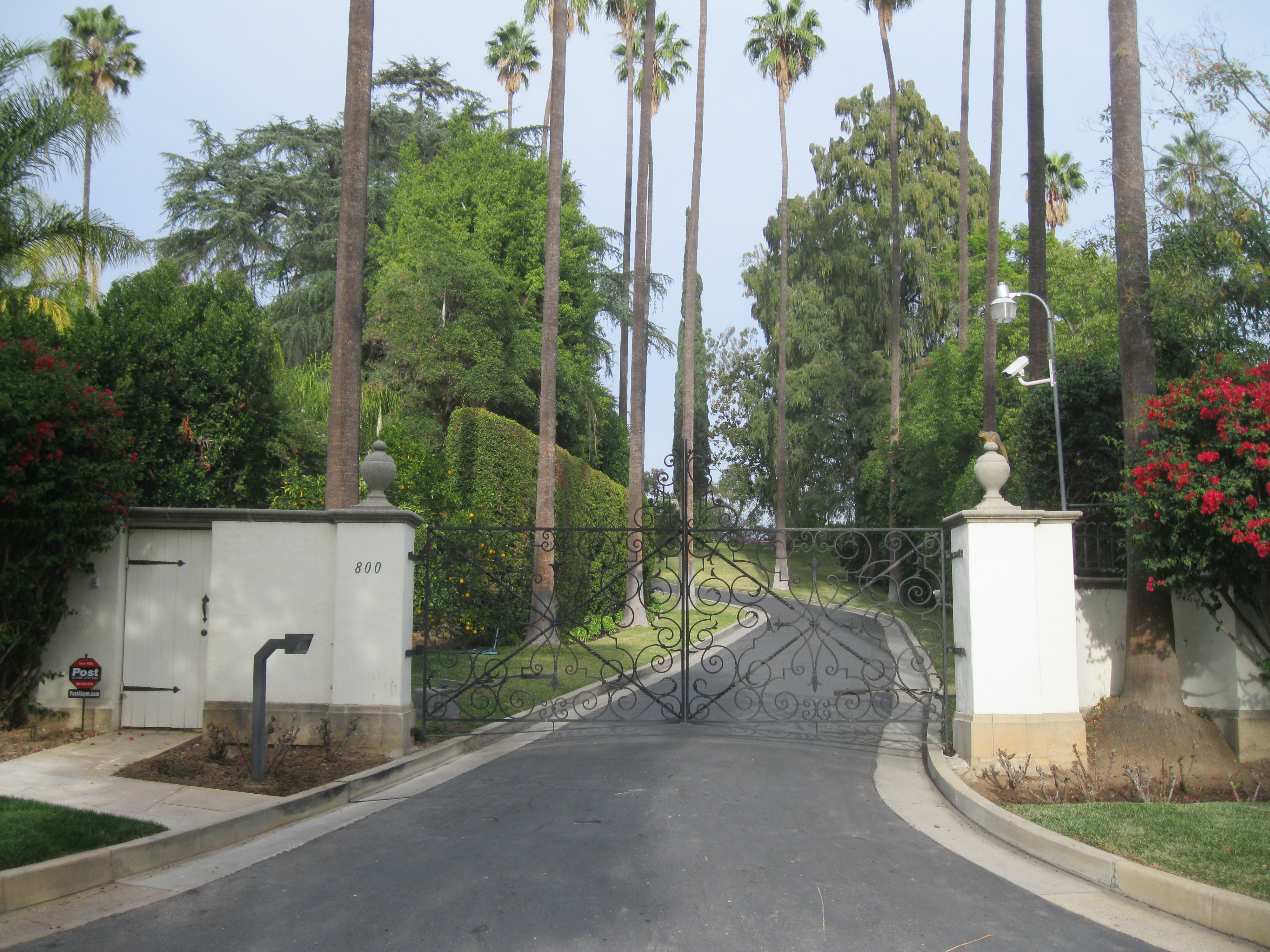 The front gate of Villa Verde, a house in Pasadena, California which is listed on the National Register of Historic Places.